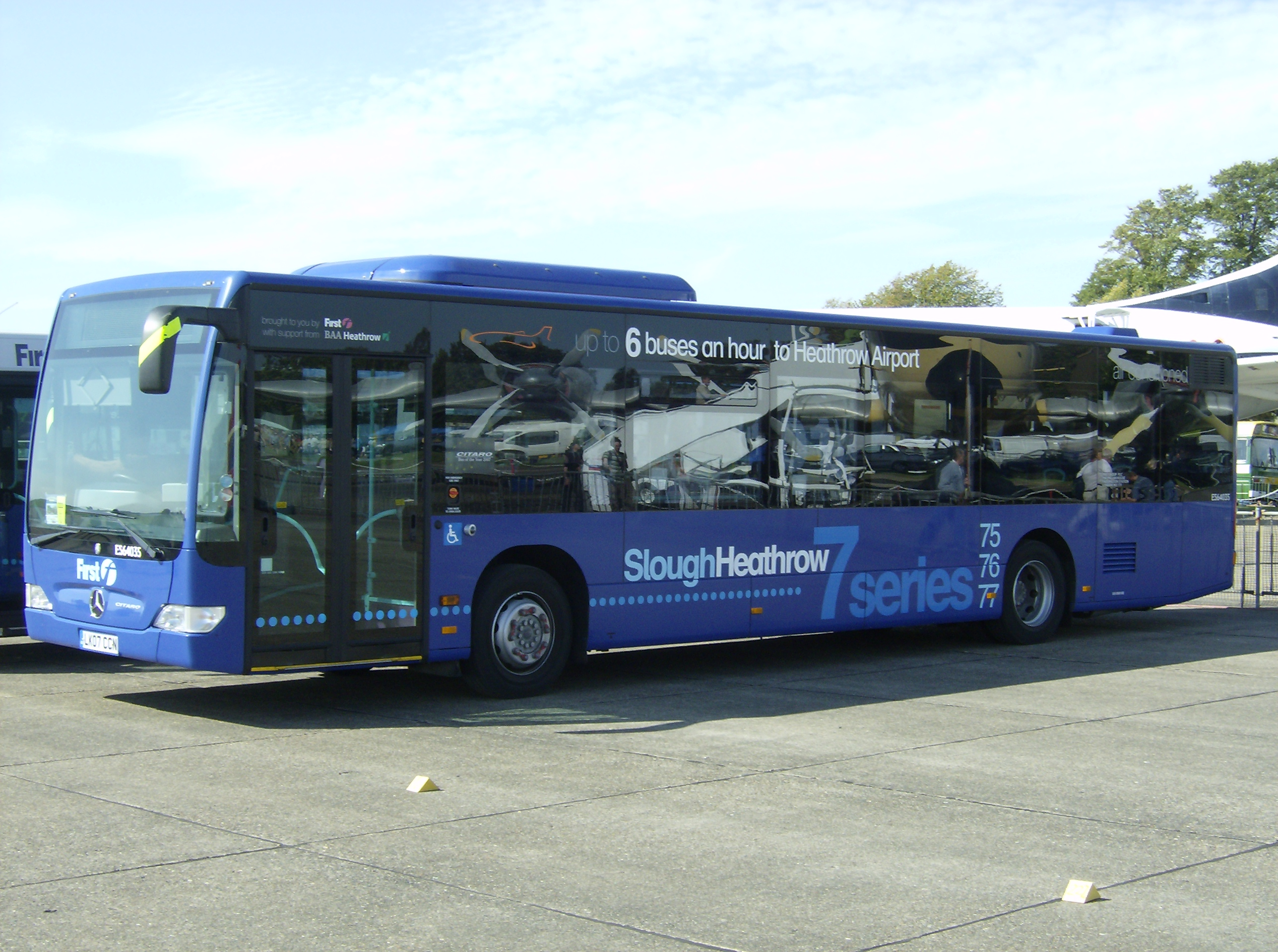 Heathrow-Slough 7 Series bus at Showbus 2007.